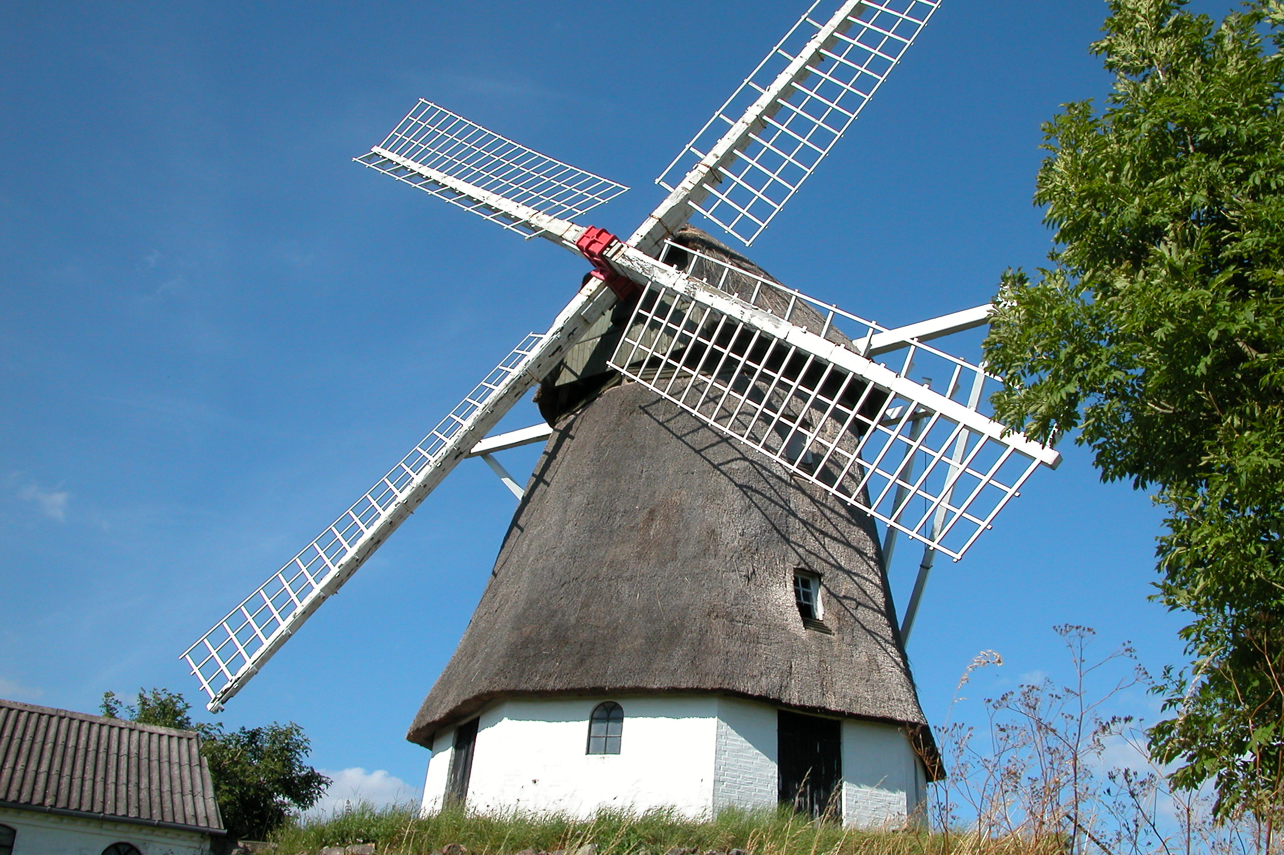 Vester Mølle, Ærø, Denmark